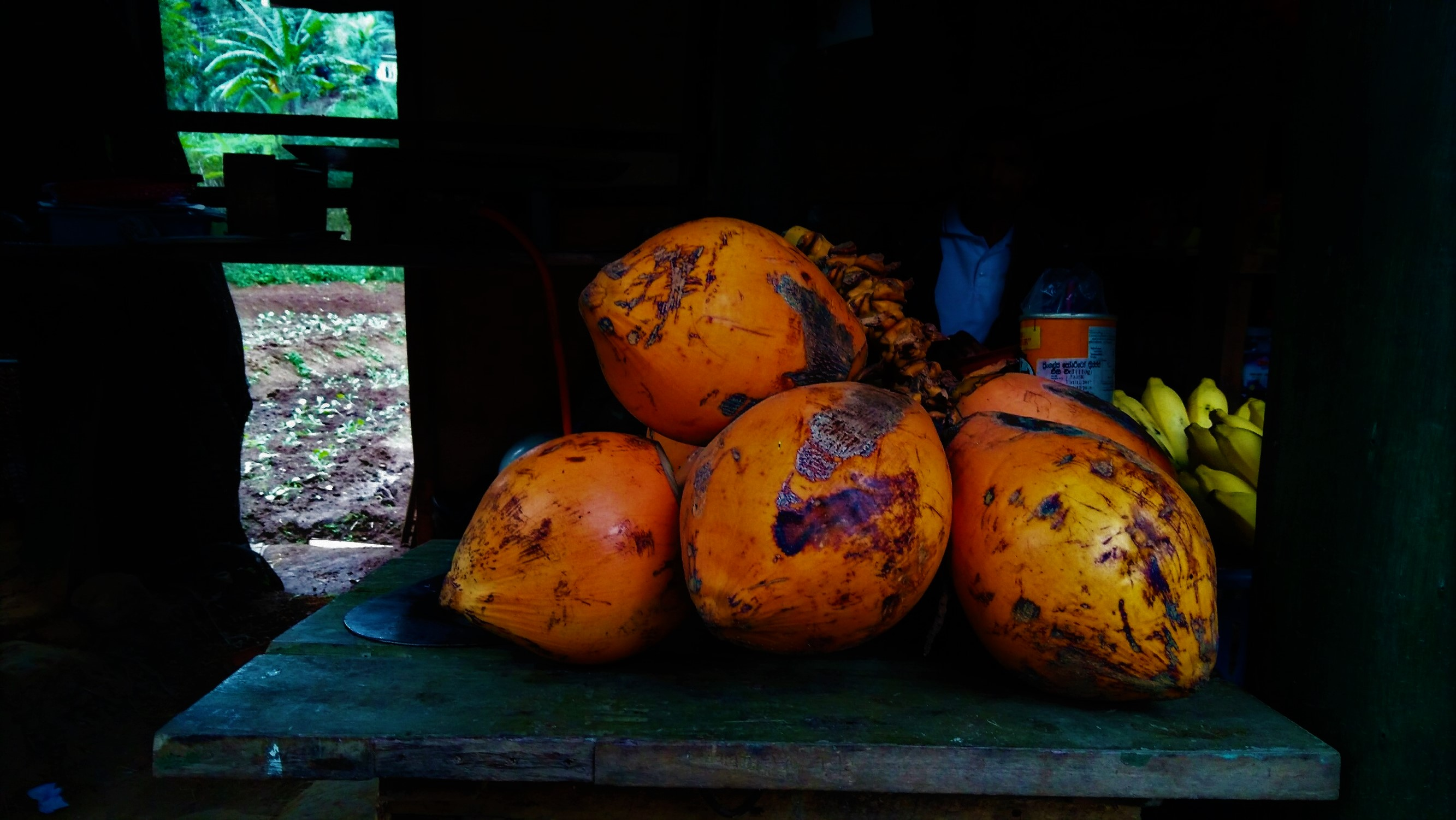 King coconut (Cocos nucifera) is a variety of coconut, native to Sri Lanka[1] where it is known as Thembili (Sinhala: තැඹිලි). Sweeter than regular coconuts, there are several sub varieties of the king coconut-the most common being the "red dwarf" (kaha thambili, commonly referred to as gon thambili). The other variety is "ran thambili",[2][unreliable source?] a smaller variety containing about forty nuts in a bunch. The king coconut tree is shorter than coconut trees, and are found commonly growing wild in many areas of the country.